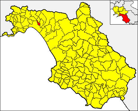 Locator map of the municipality of San Mango Piemonte (red) within the Province of Salerno